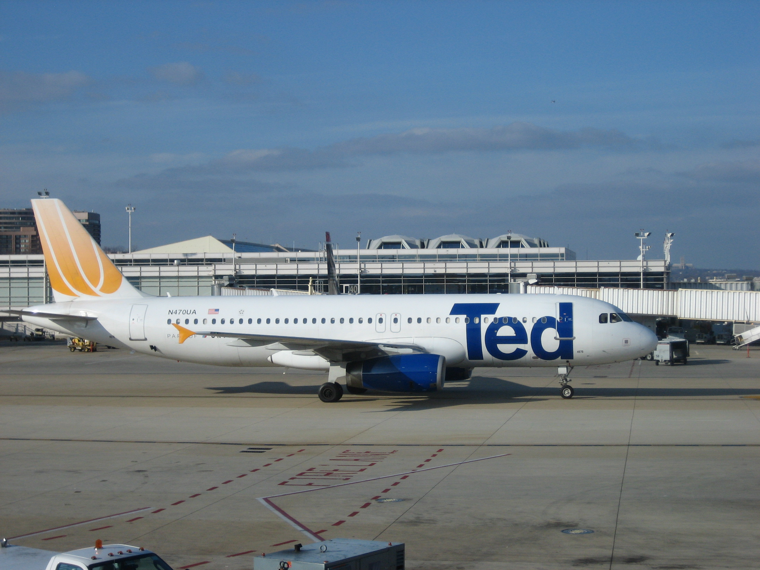 A Ted (United Airlines) Airbus A320-232 taxiing on December 30, 2005 seen from the central pier (B/C) of the north terminal of Ronald Reagan Washington National Airport. An equipment substitution may be presumed, as "Ted" did not ordinarily serve DCA.